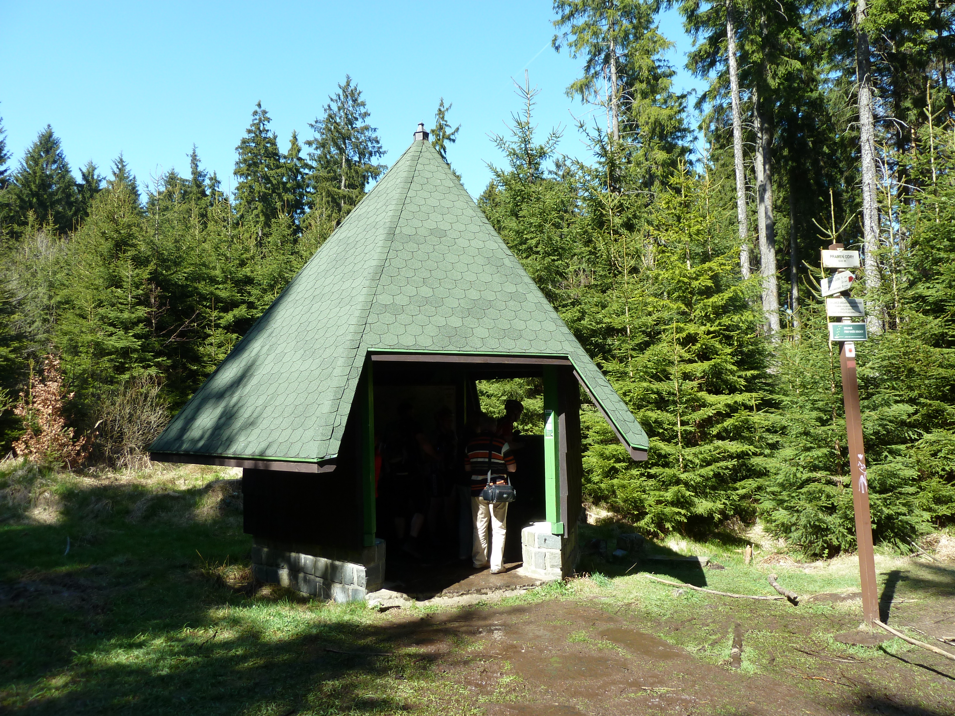 The spring of the river Odra (near village Kozlov, Czech Republic)